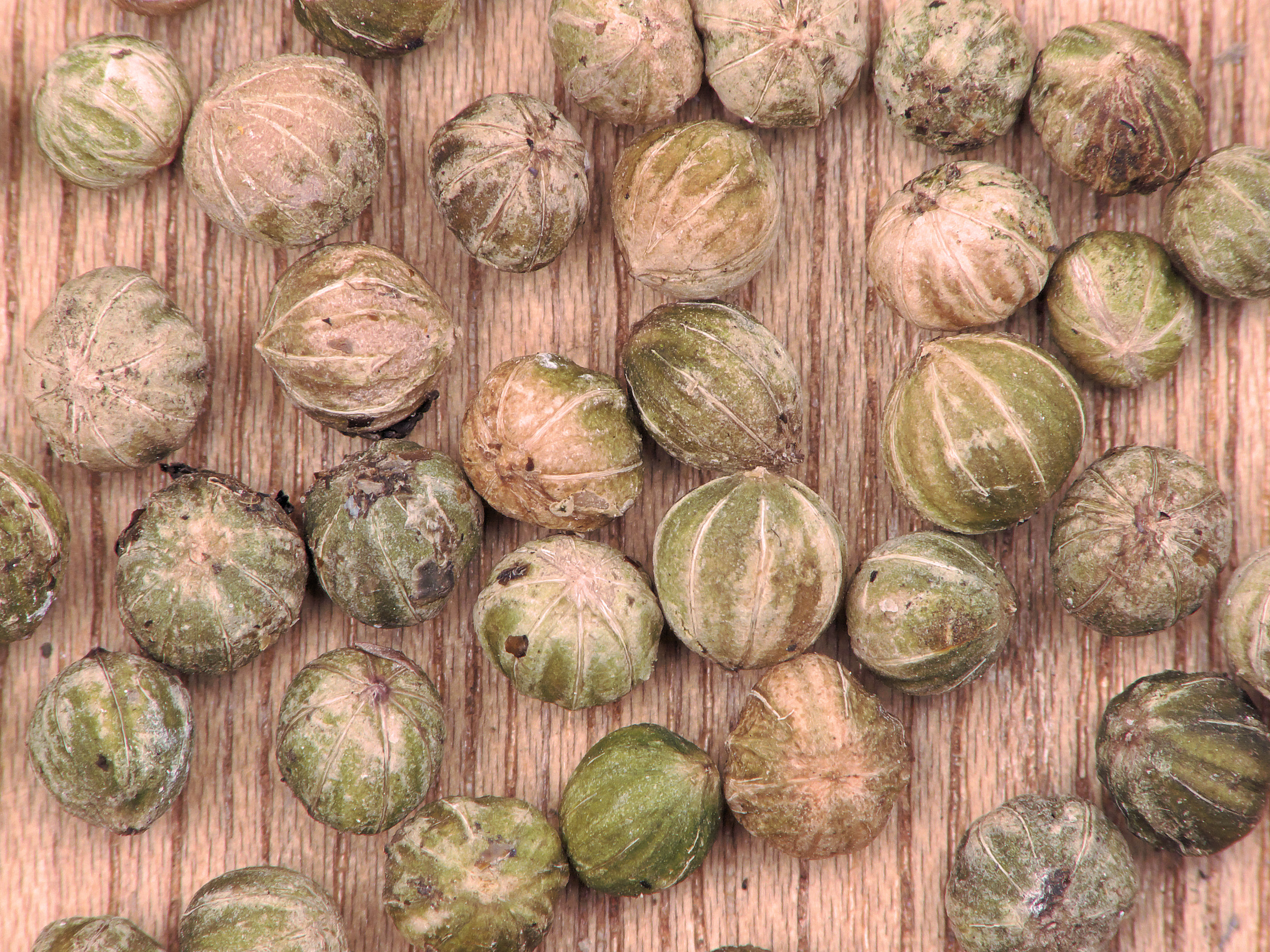 Cornus sanguinea seeds; size 4-5 mm